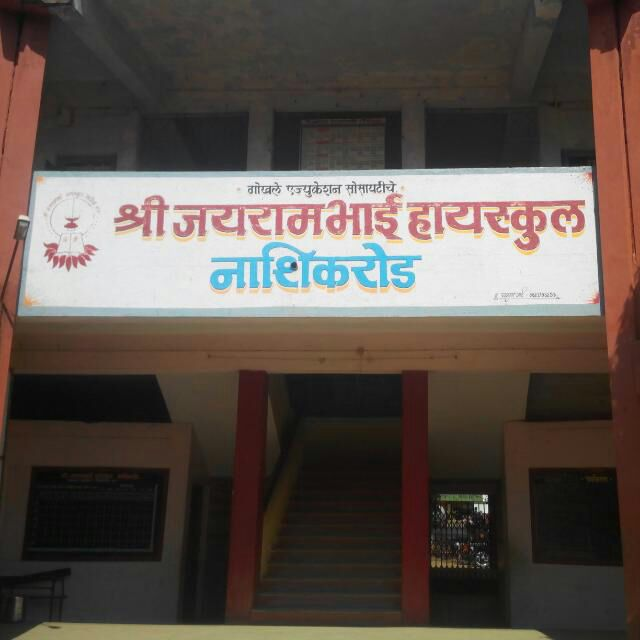 inner frontal face of school.